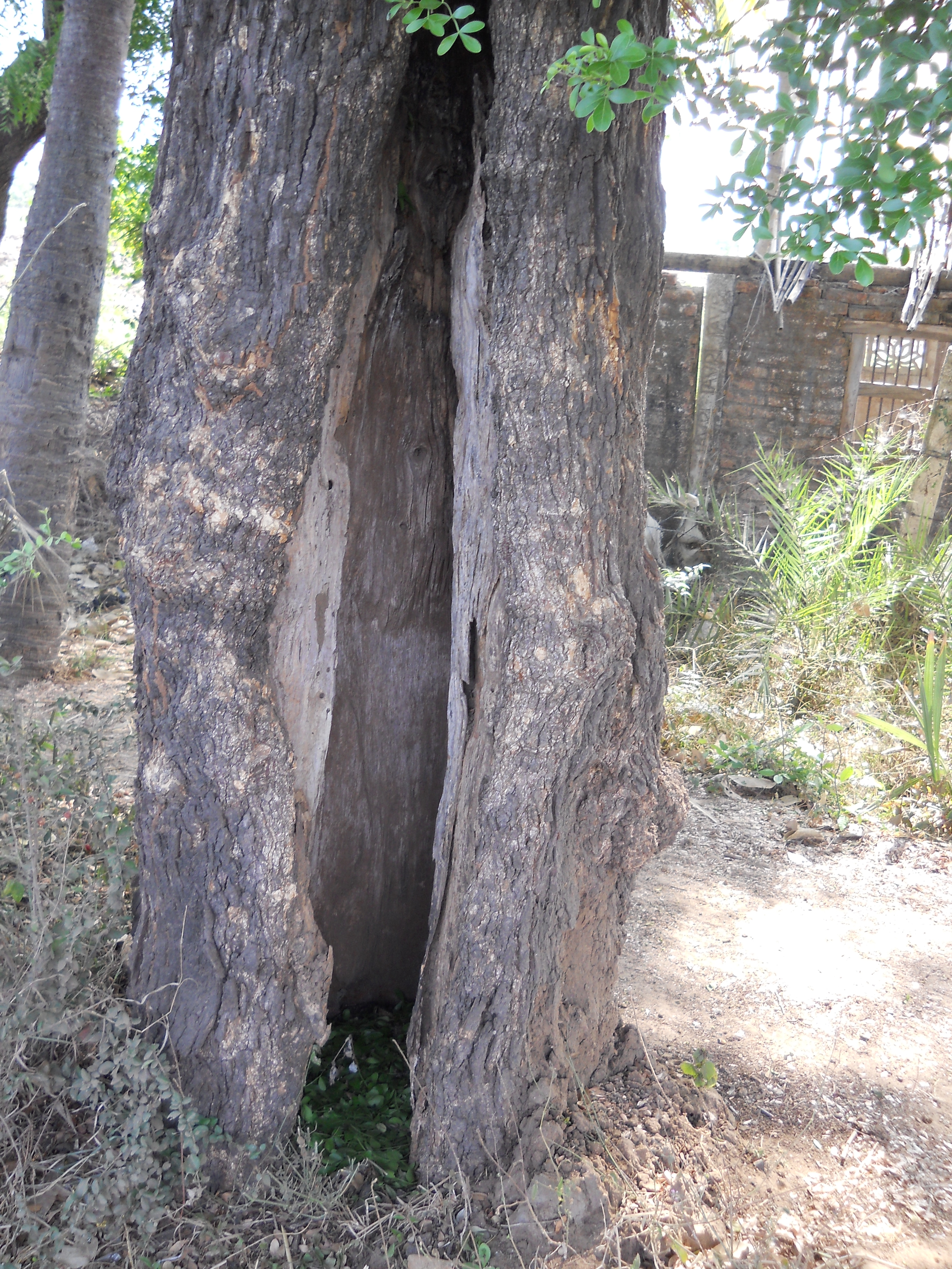 Tree hollow